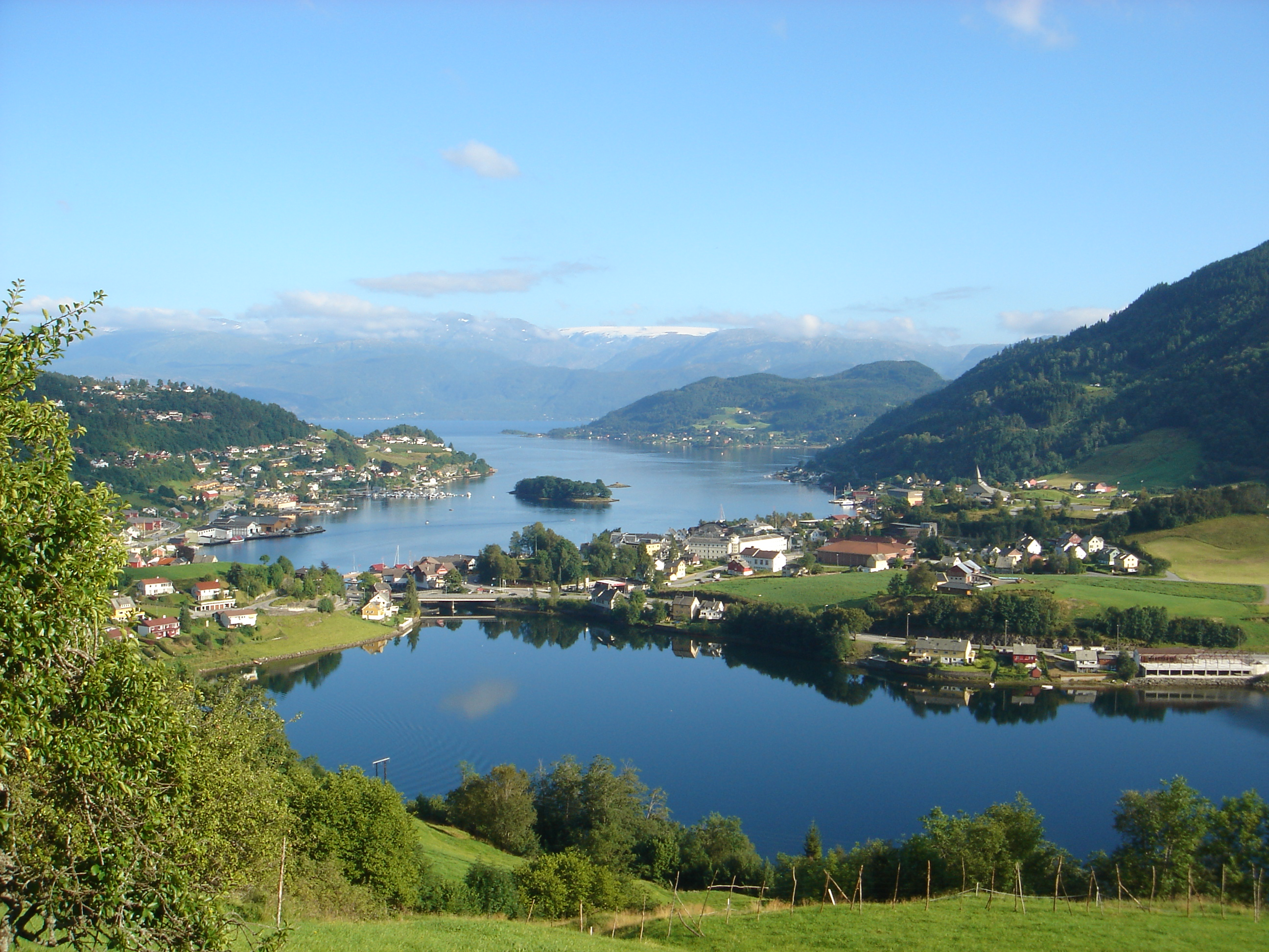 The picture shows Norheimsund in Kvam municipality, overlooking a part of the Hardanger fjord